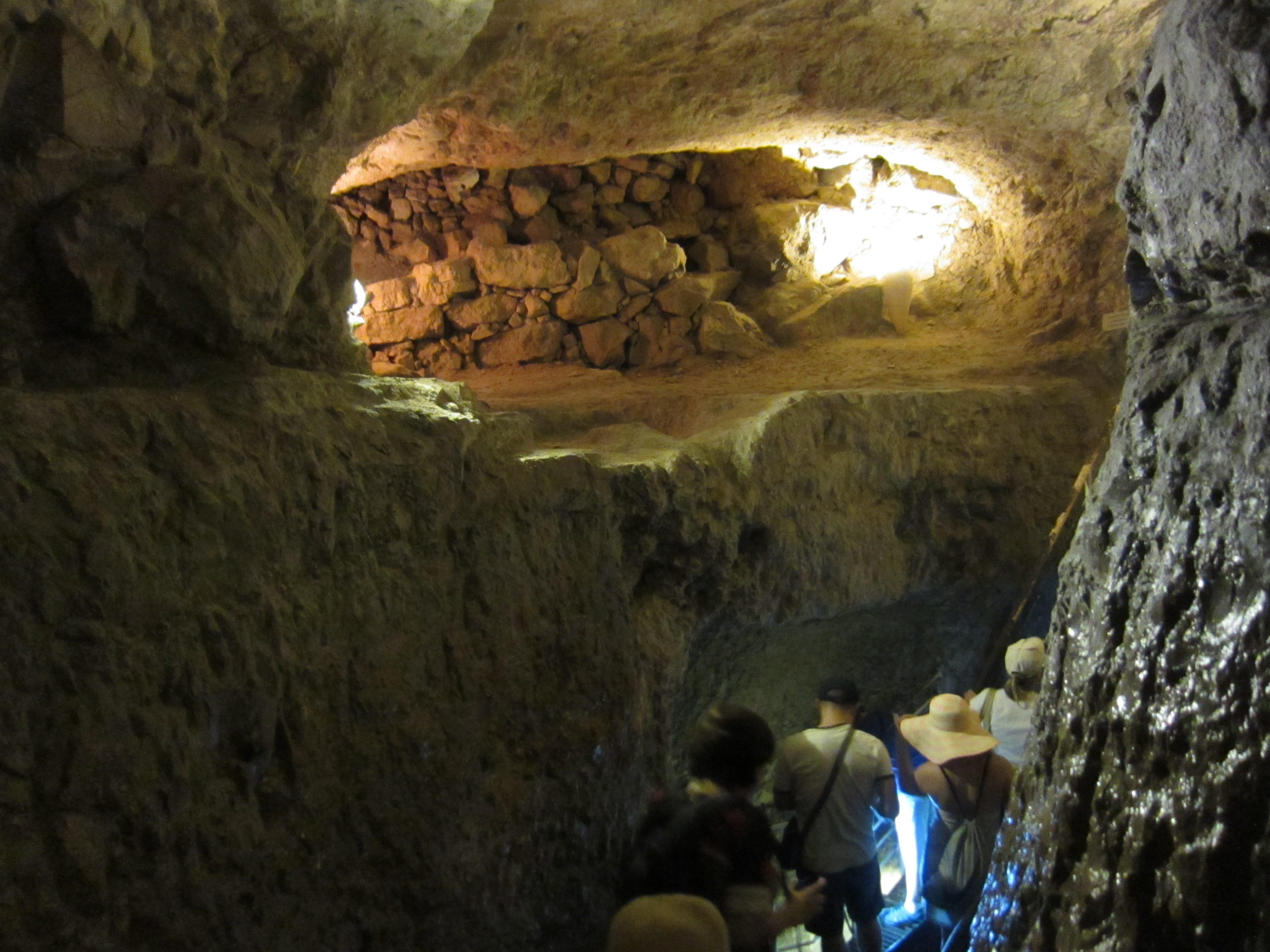 Elef Millim - City of David - JERUSALEM